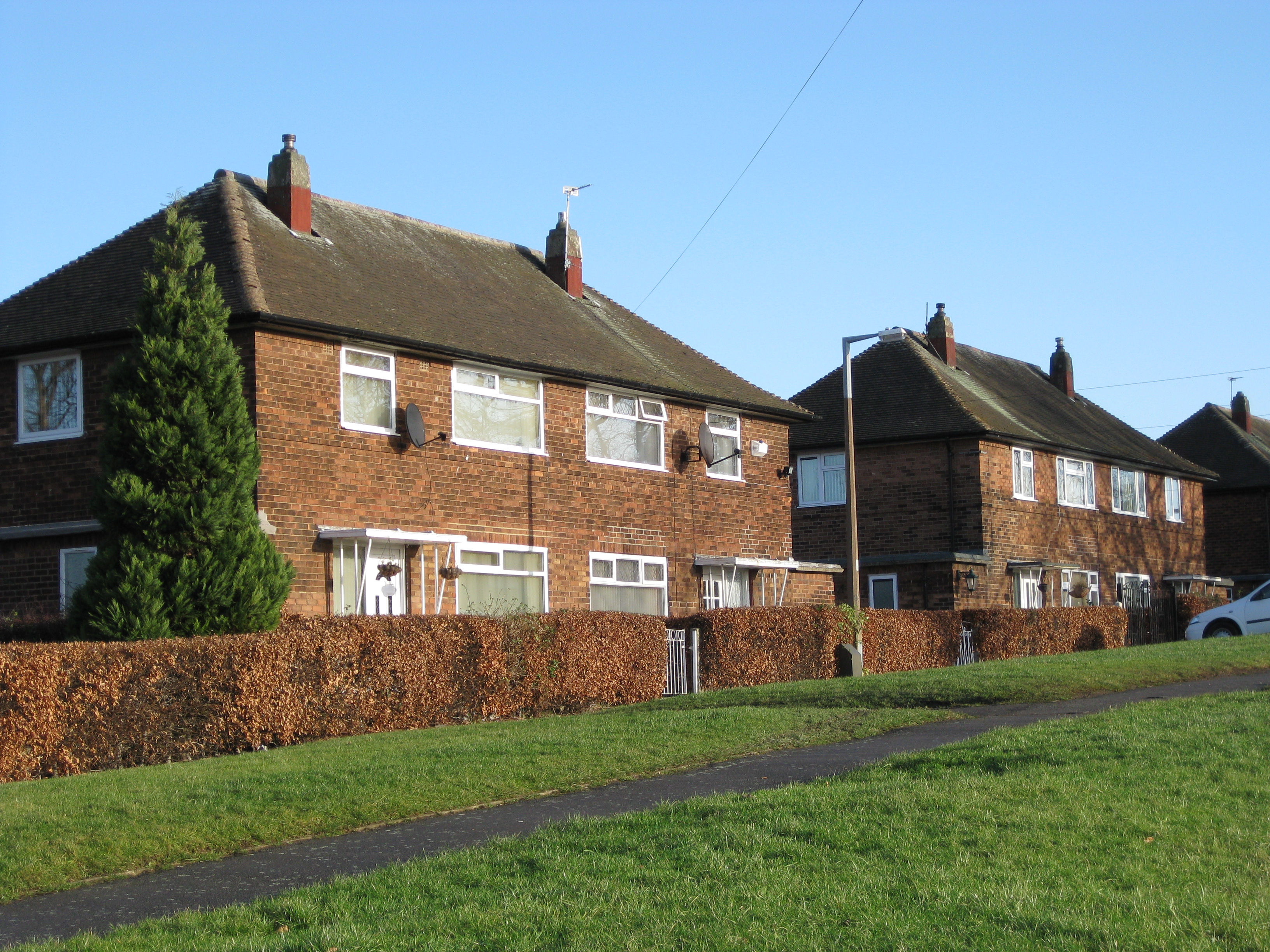 Sem-detached council houses in Seacroft, Leeds LS14